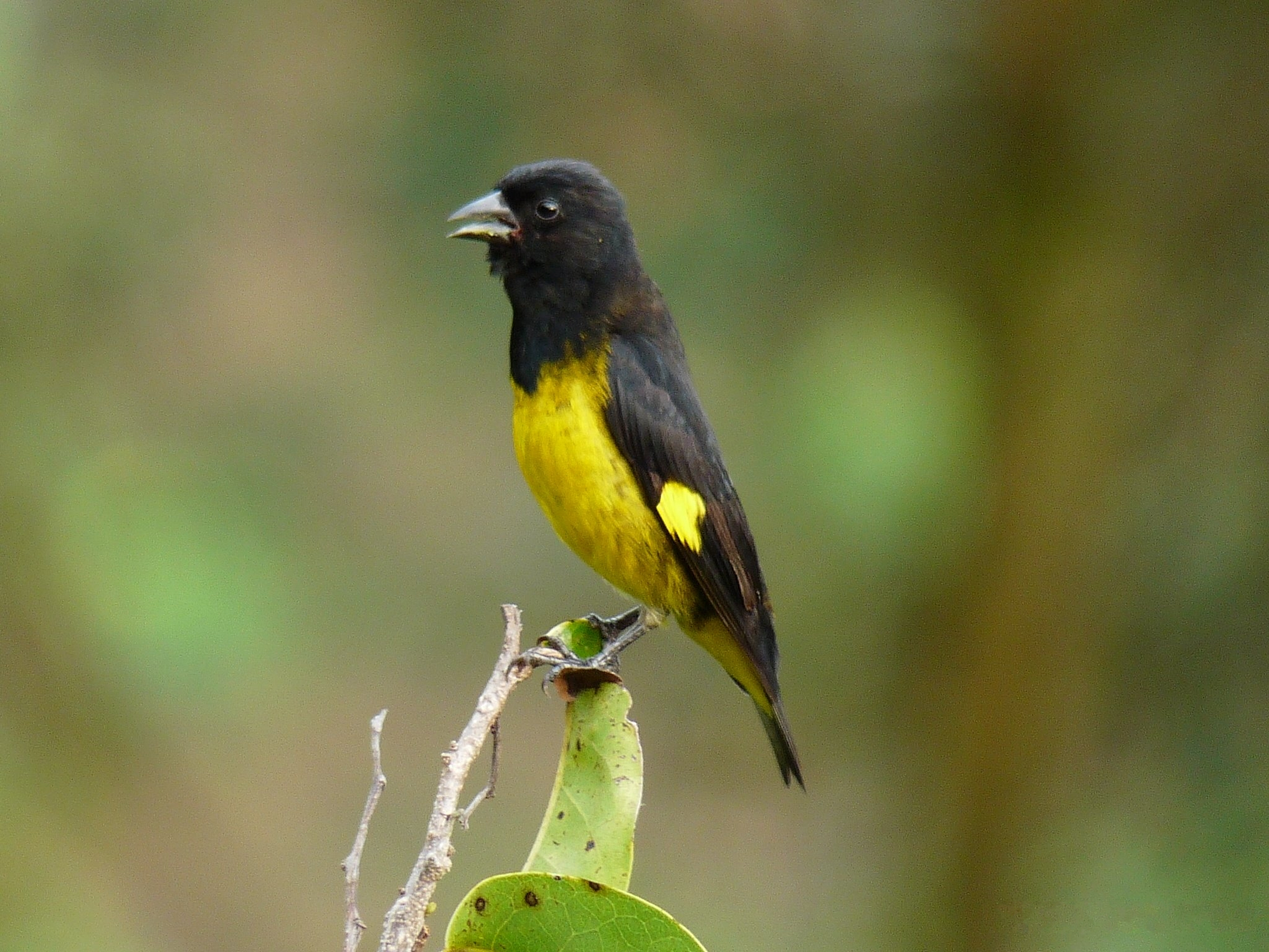 A Yellow-bellied Siskin in Manizales, Caldas, Colombia.